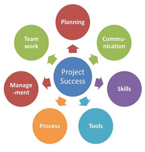 Key Success